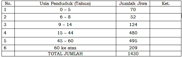 Penduduk Lewoloba berdasarkan usia